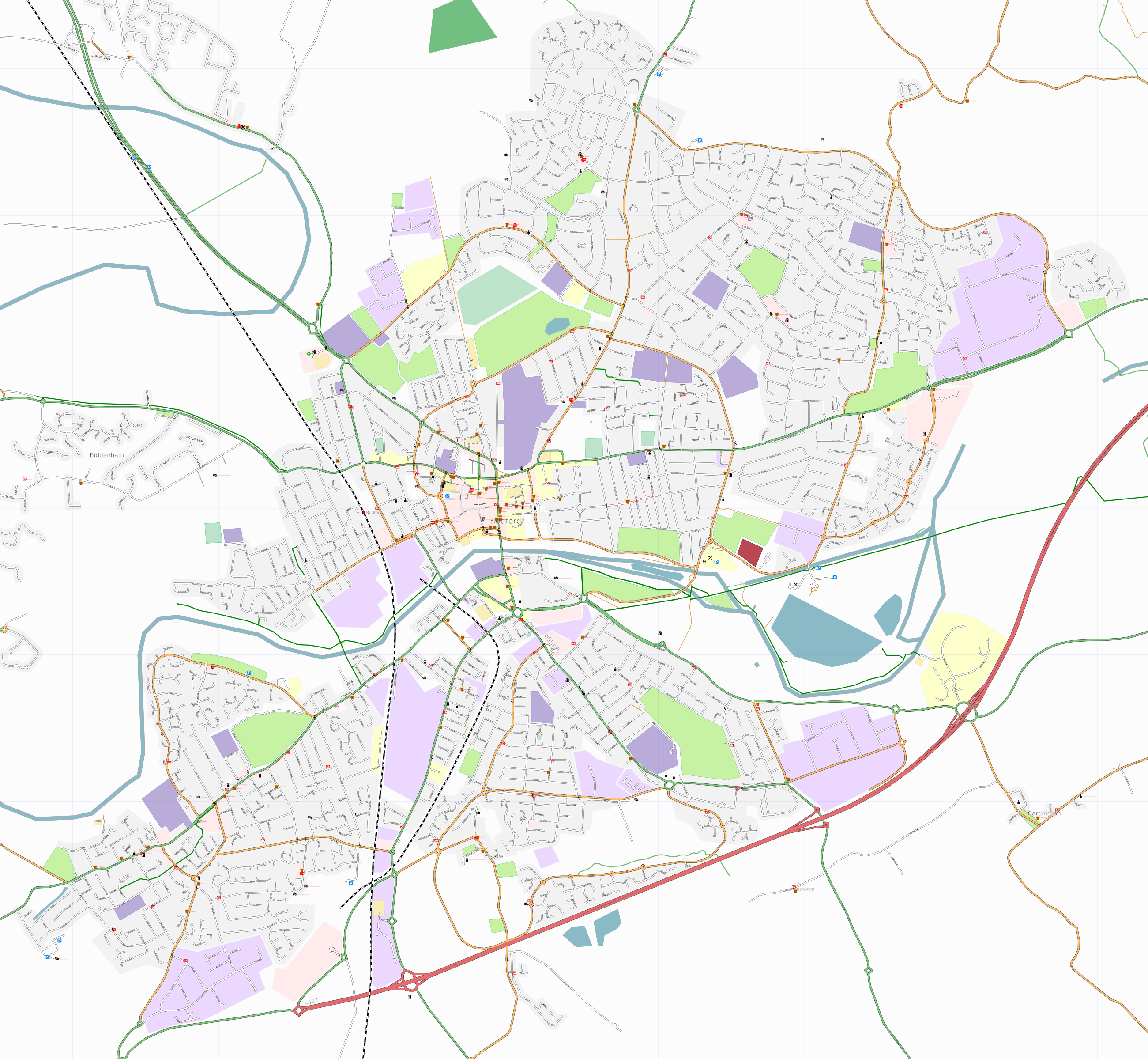 This map may be incomplete, and may contain errors. Don't rely solely on it for navigation.